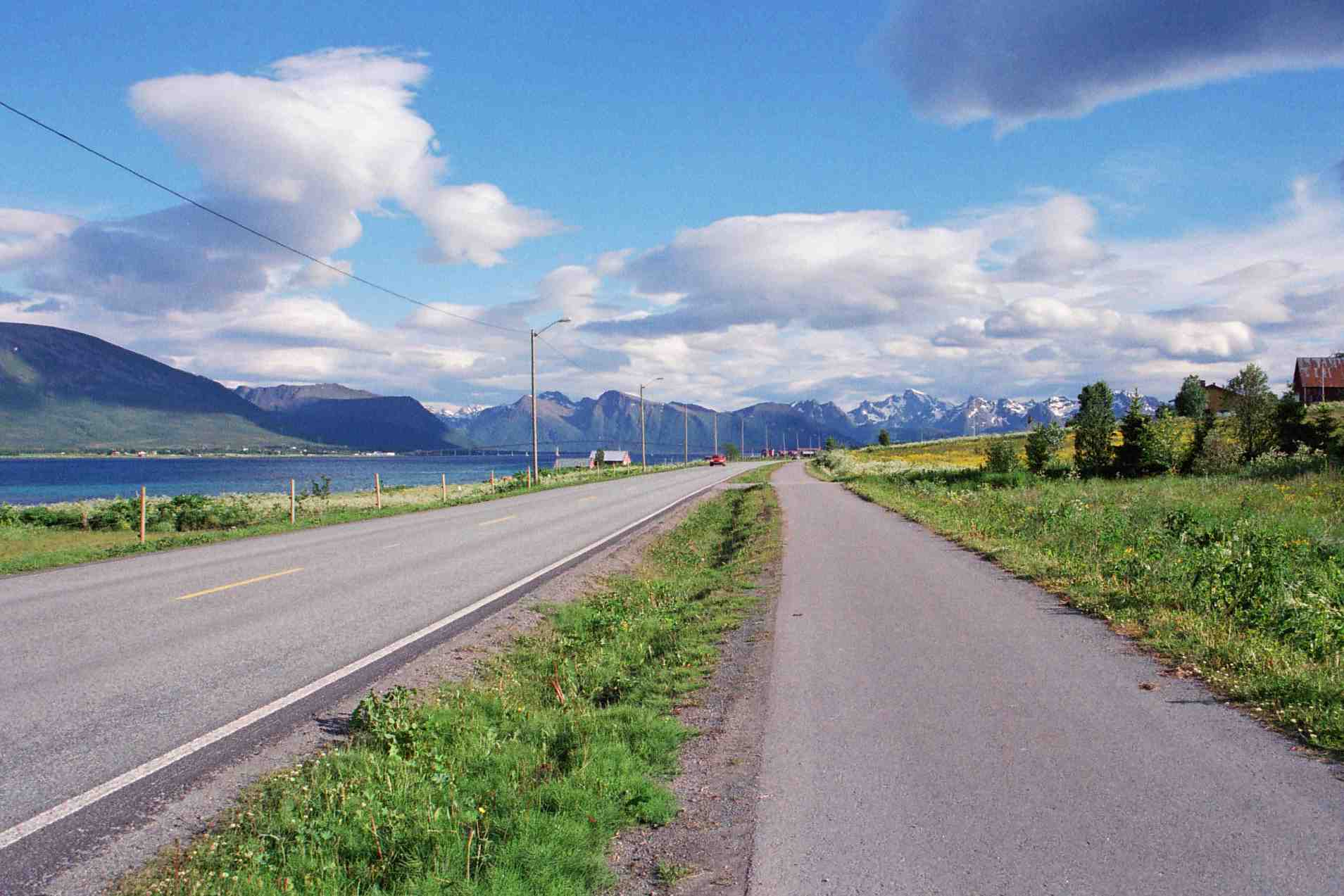 Street north of Sortland, looking south